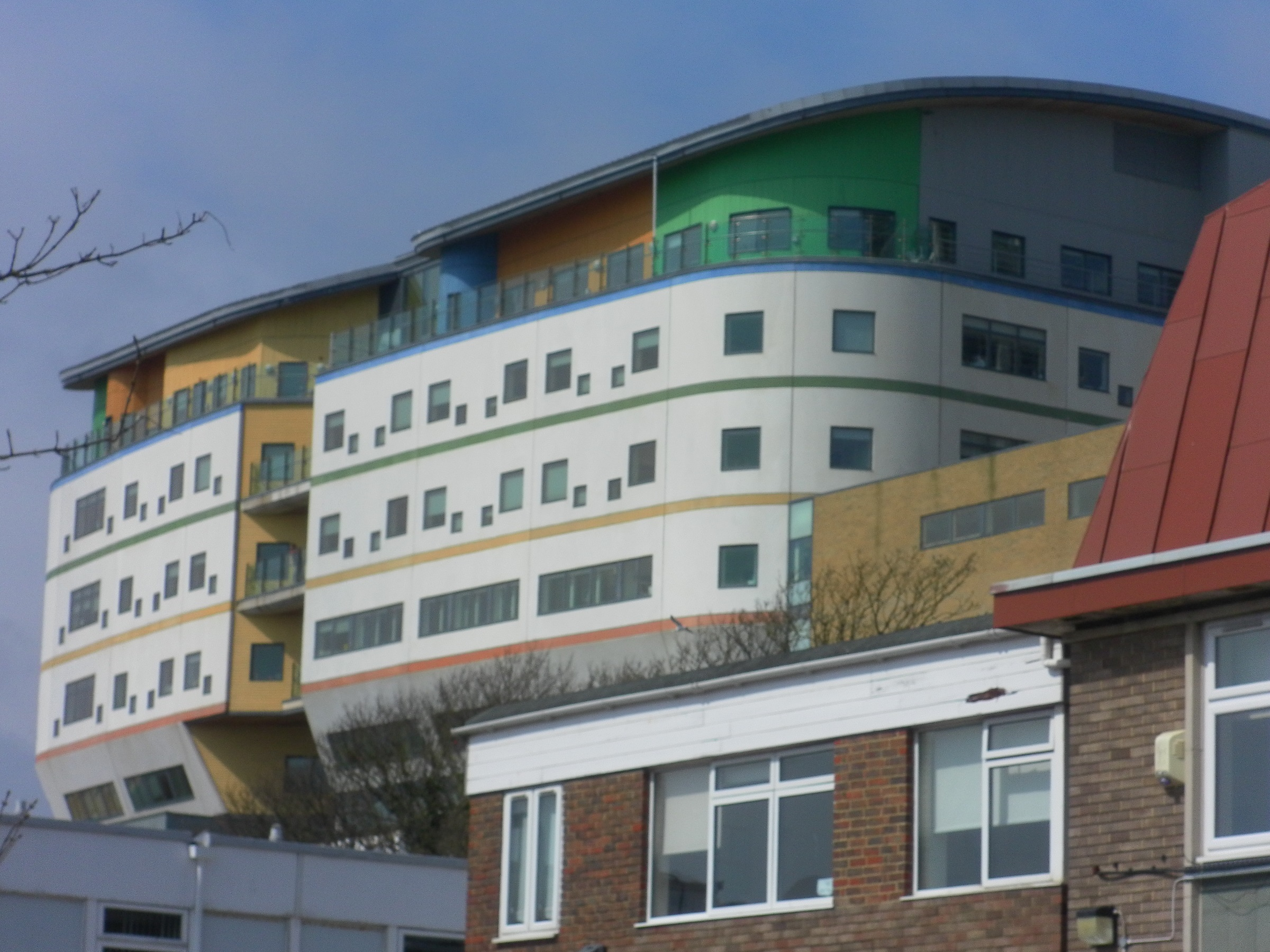 Royal Alexandra Children's Hospital, Eastern Road, Kemptown, City of Brighton and Hove, East Sussex. The award-winning new hospital building opened in 2007 on the Royal Sussex County Hospital campus. Building Design Partnership and Kajima were the designers and building contractors respectively. This view is from the southeast, from the opposite side of Eastern Road.